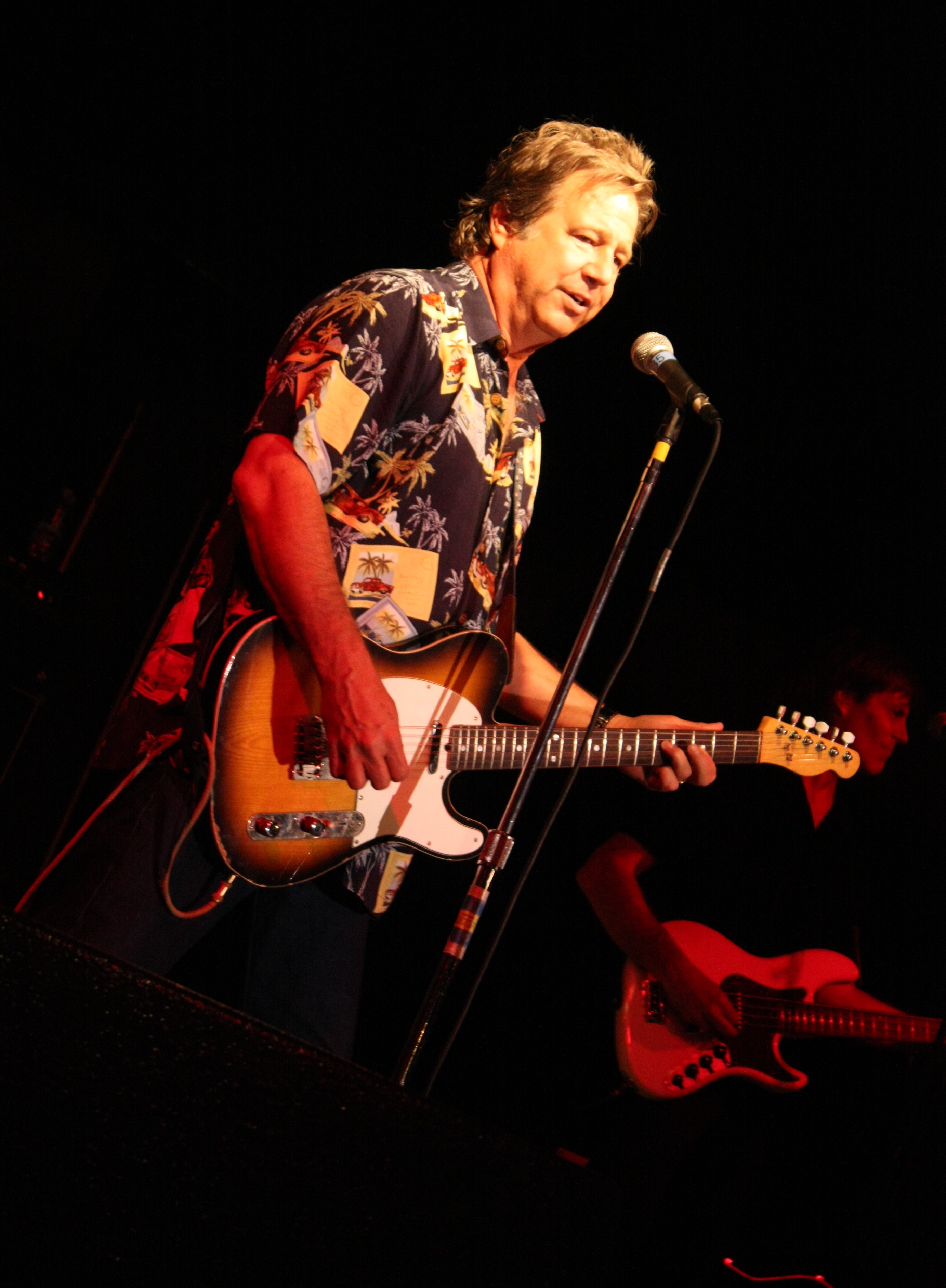 Greg Kihn in concert, 5/9/08